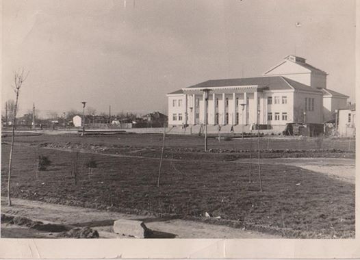 Град Стамболийски - читалищната сграда в 1960 година.